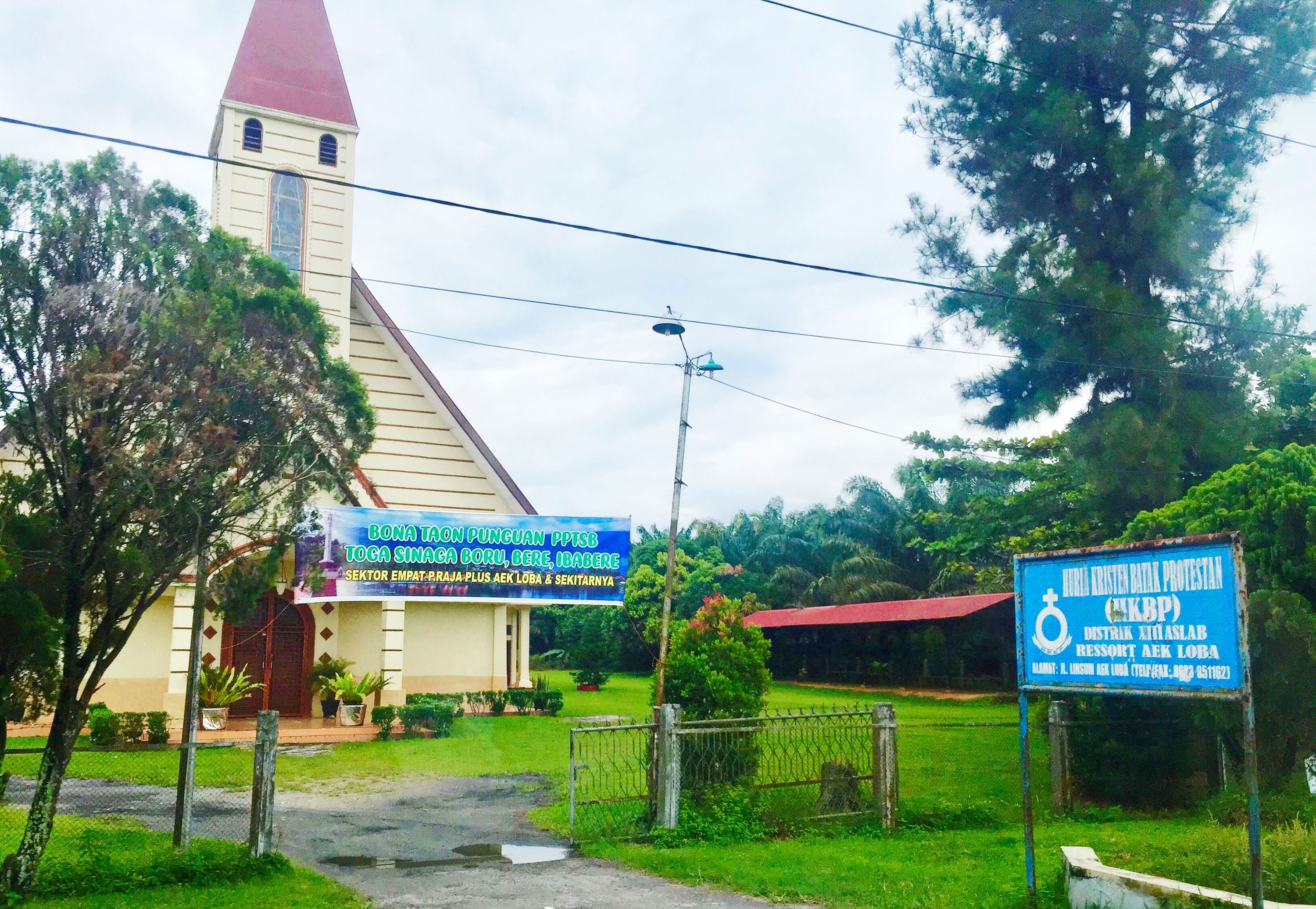 HKBP Aek Loba, Res. Aek Loba Church in Aek Loba Afdeling I, Aek Kuasan, Asahan